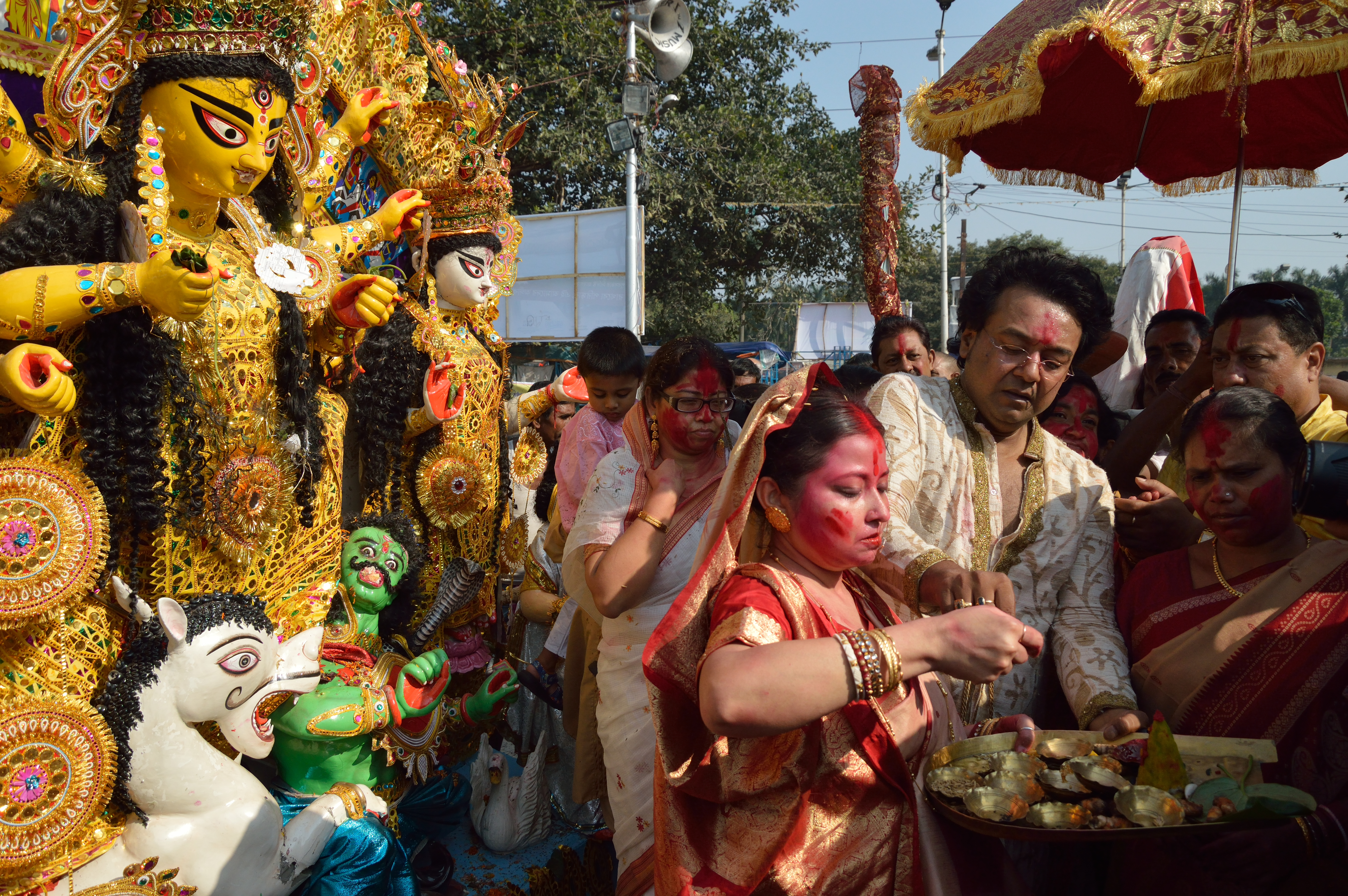 Photograph taken during the Bisarjan or Immersion at the end of Durga puja festival at the Baja Kadamtala Ghat of river Hooghli in Kolkata.